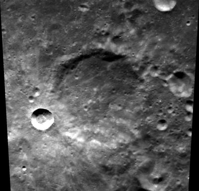 Fechner lunar crater - Clementine image